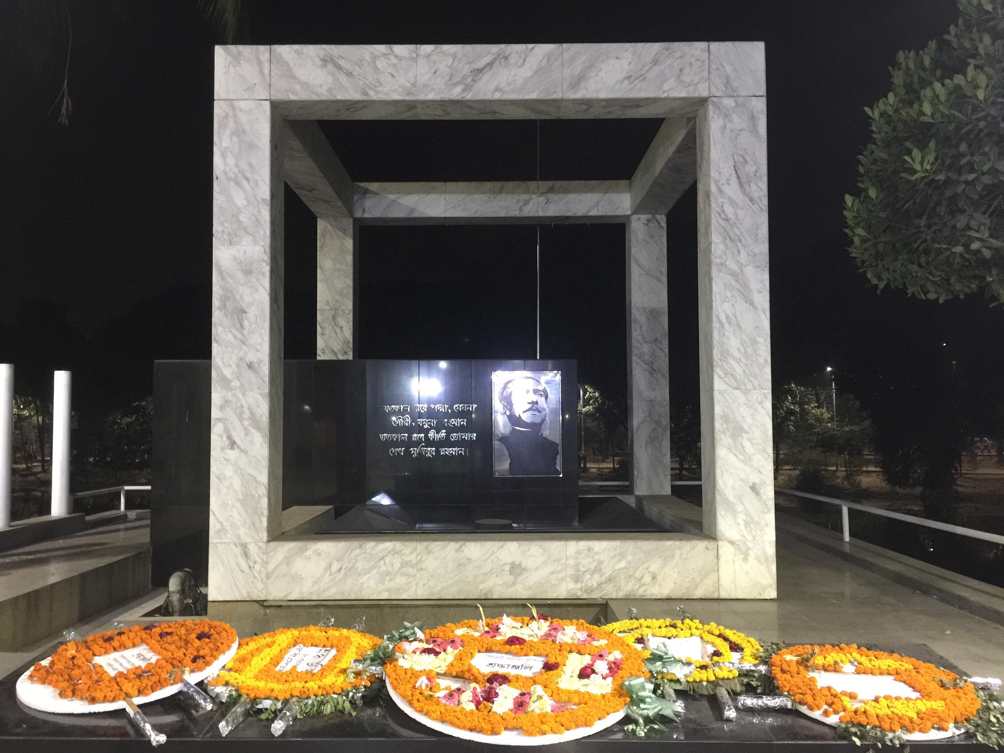 Monuments of Bangabandhu memorial museum, Dhaka